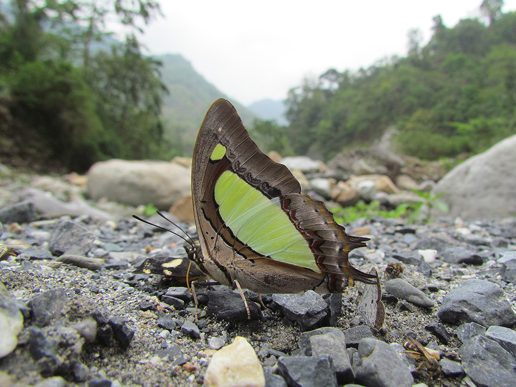 Close wing position of Charaxes bharata Felder & Felder, 1867 – Indian Nawab found in Buxa Tiger Reserve